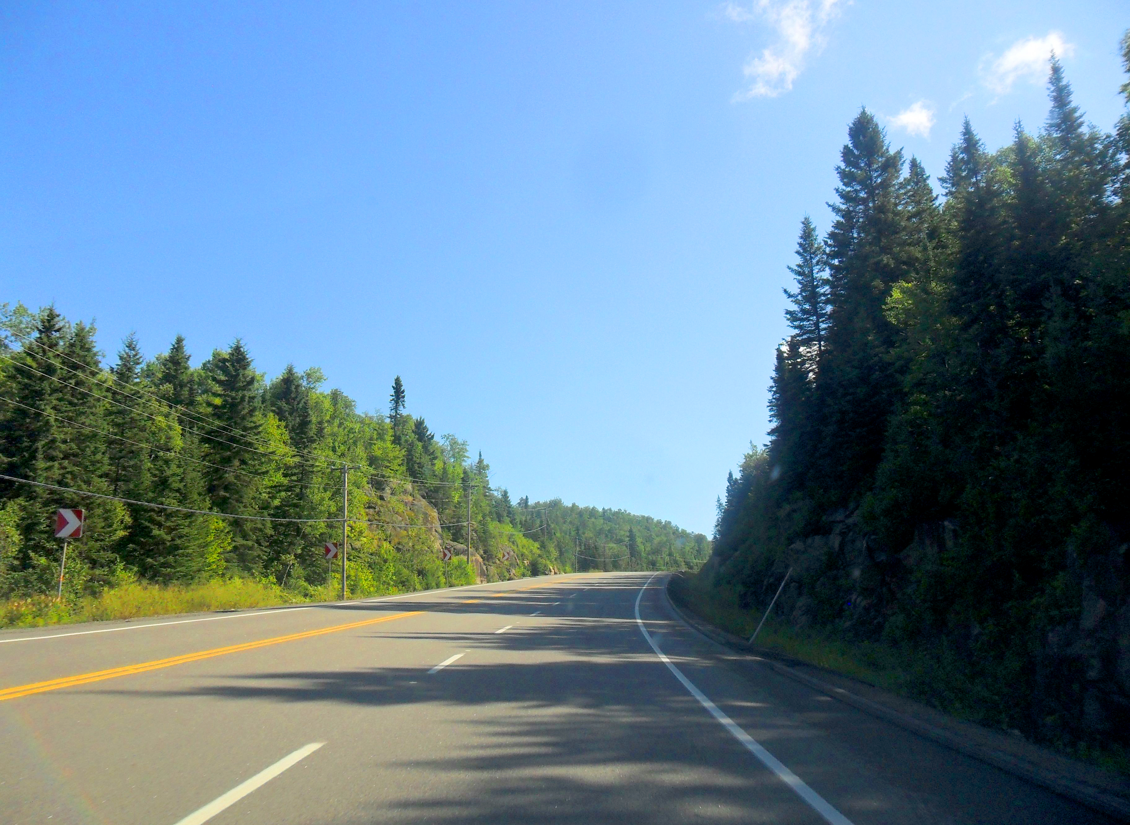 Road 172 in Quebec.